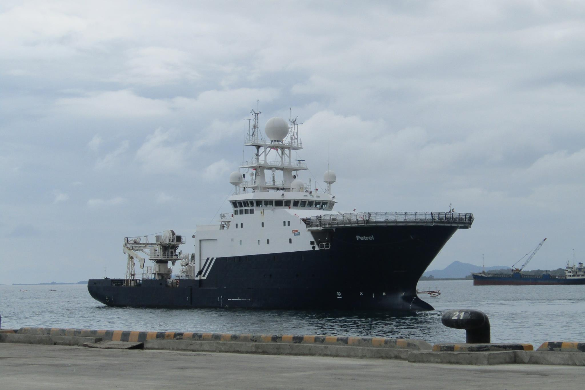 RV Petrel arriving in Surigao City, Philippines on October 24, 2017